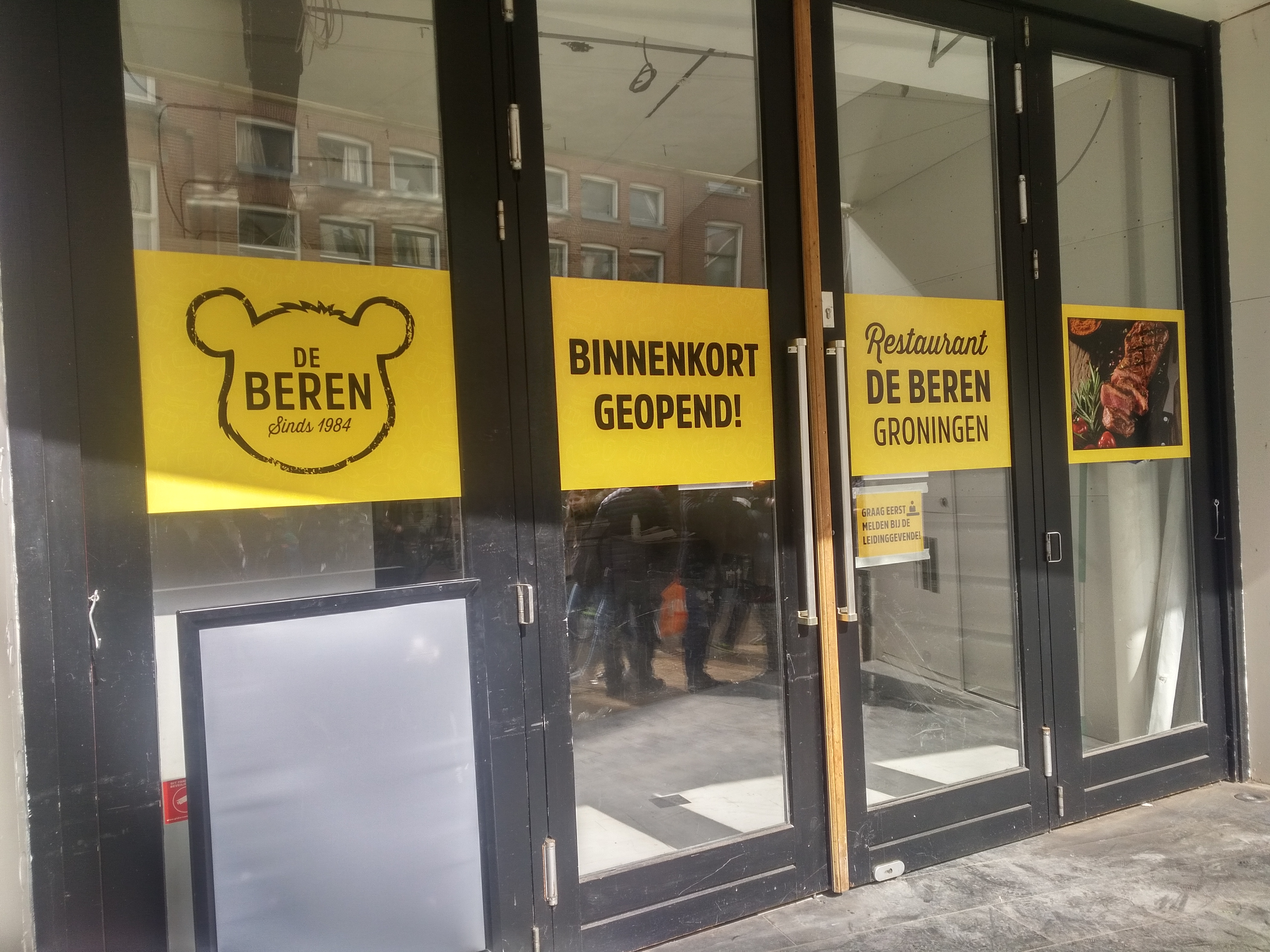 The site of a future "De Beren" (The Bears) restaurant in the city of Groningen.